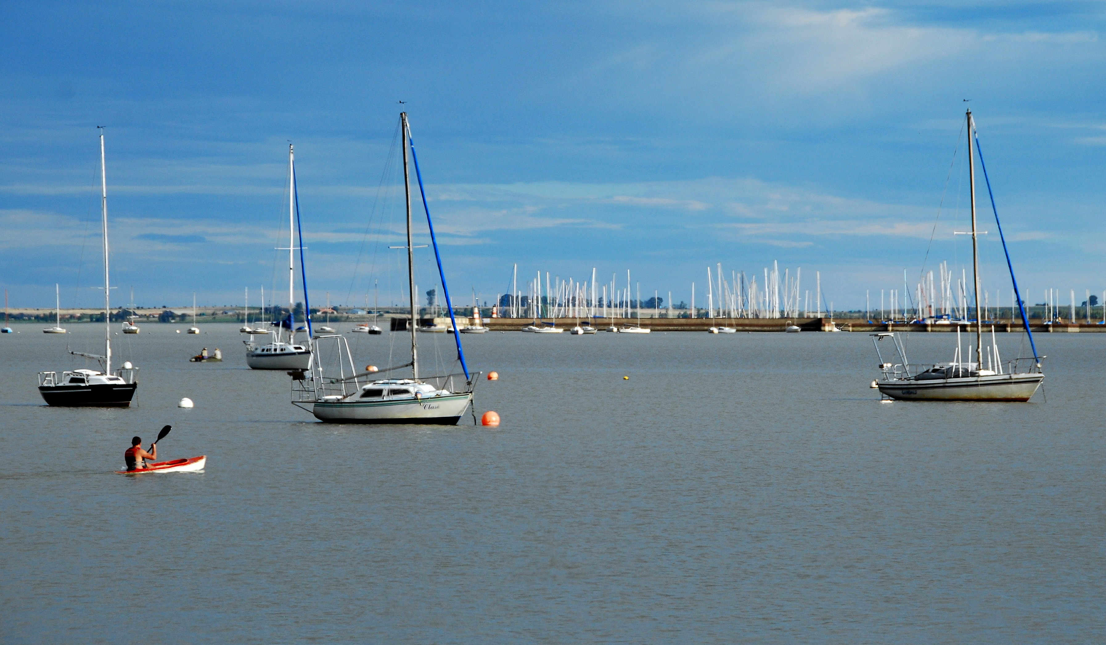 View over the Vaal Dam from Deneysville